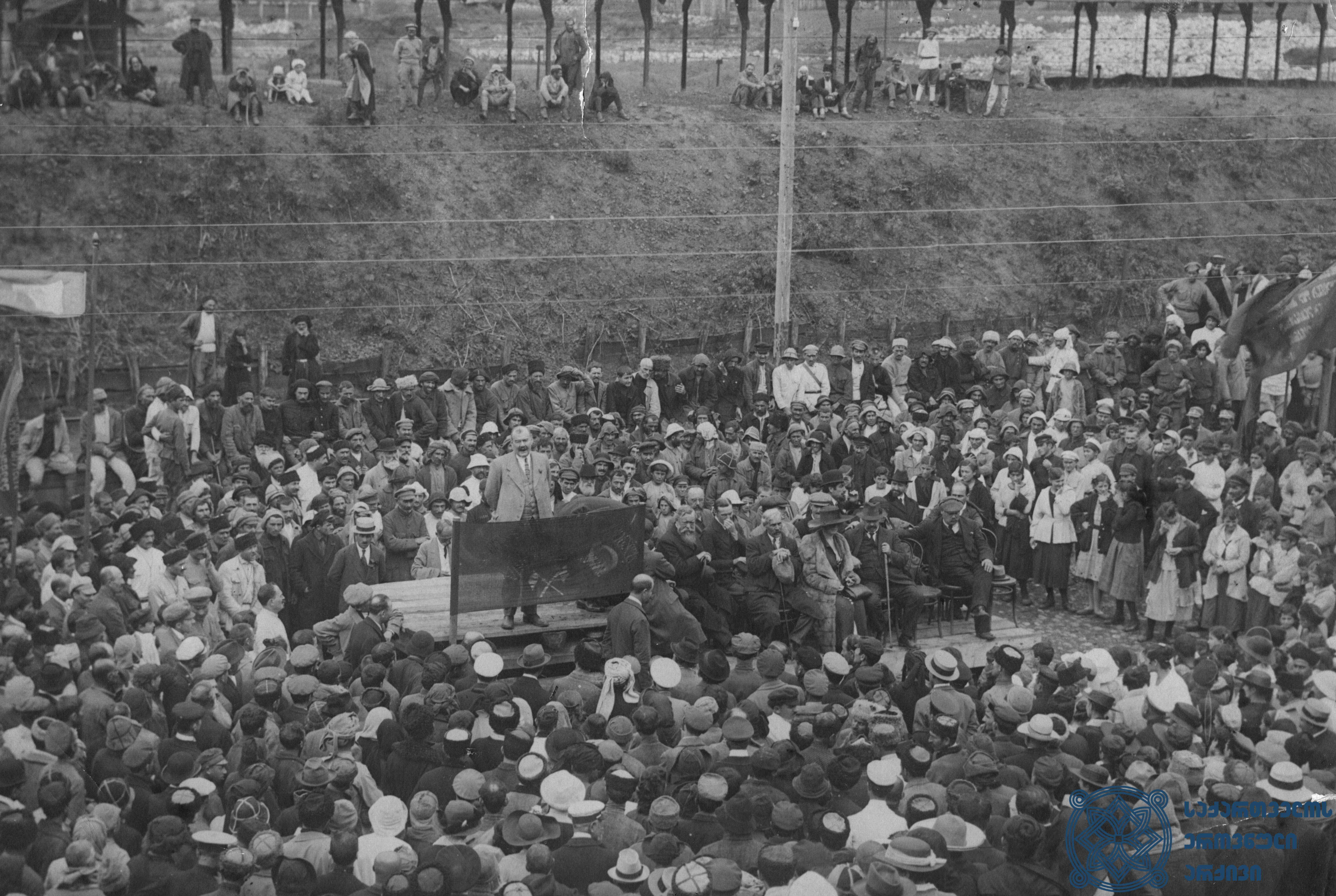 The Second International delegation on the Day of Independence of Georgia. May 26, 1920